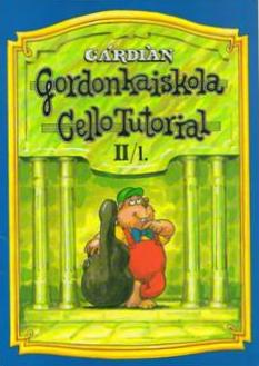 Gárdián Gábor: Cello School Volume II/1 cover